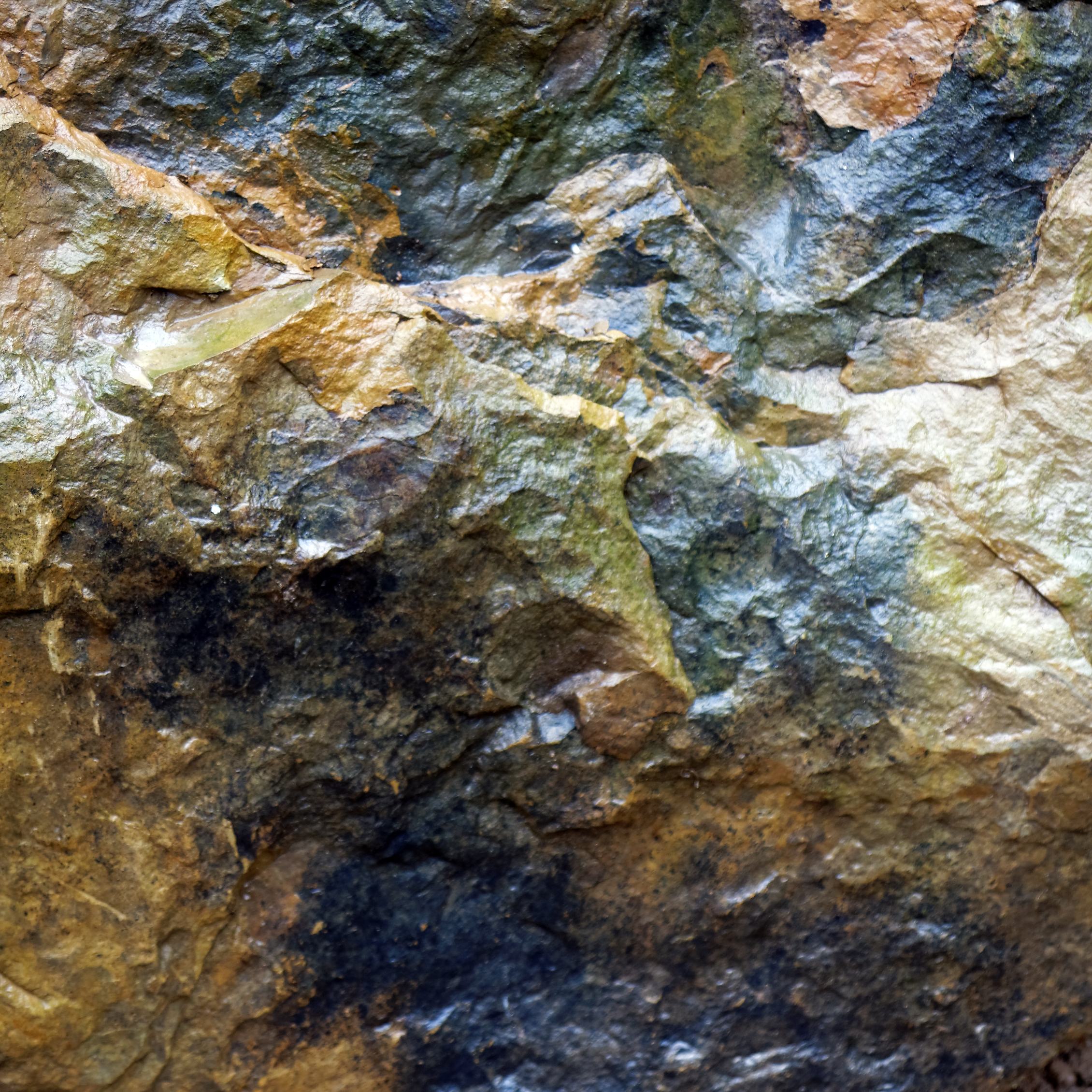 A slab of Horsham Stone after the rain, a remnant from local core boring, in the Nuthurst civil parish of West Sussex, England.Camera: Canon EOS 6D with Canon EF 24-105mm F4L IS USM lens.Software: RAW file lens-corrected and optimized with DxO OpticsPro 11 Elite and Viewpoint 2, and further optimized with Adobe Photoshop CS2.